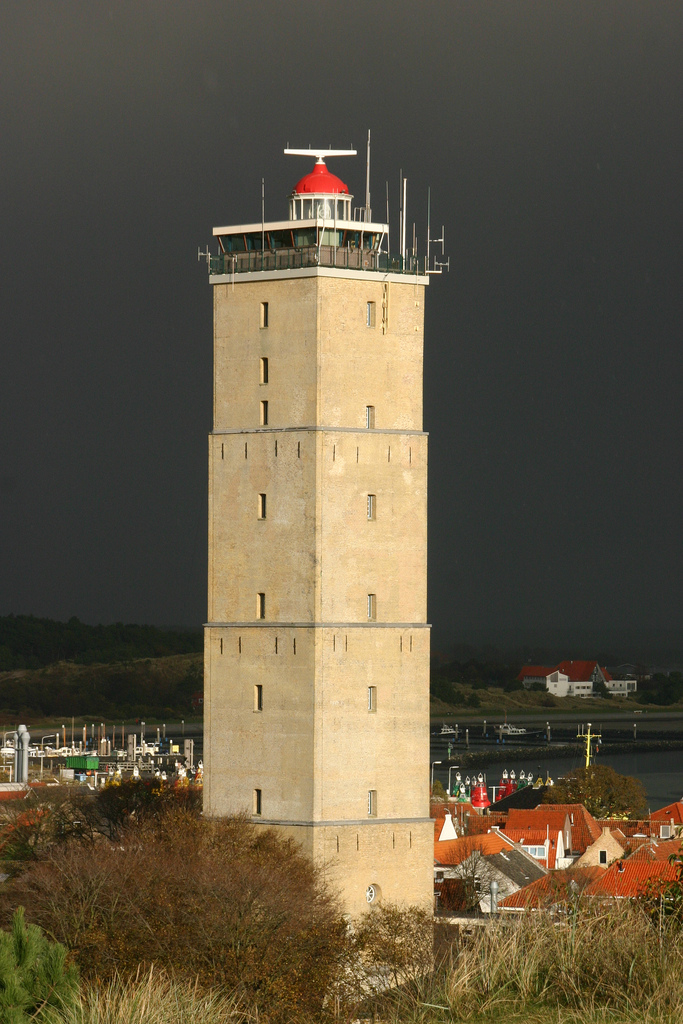 Brandaris, vuurtoren Terschelling. Lighthouse.